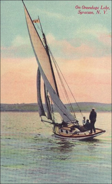 Sailboat on Onondaga Lake outside of Syracuse, New York c.1907